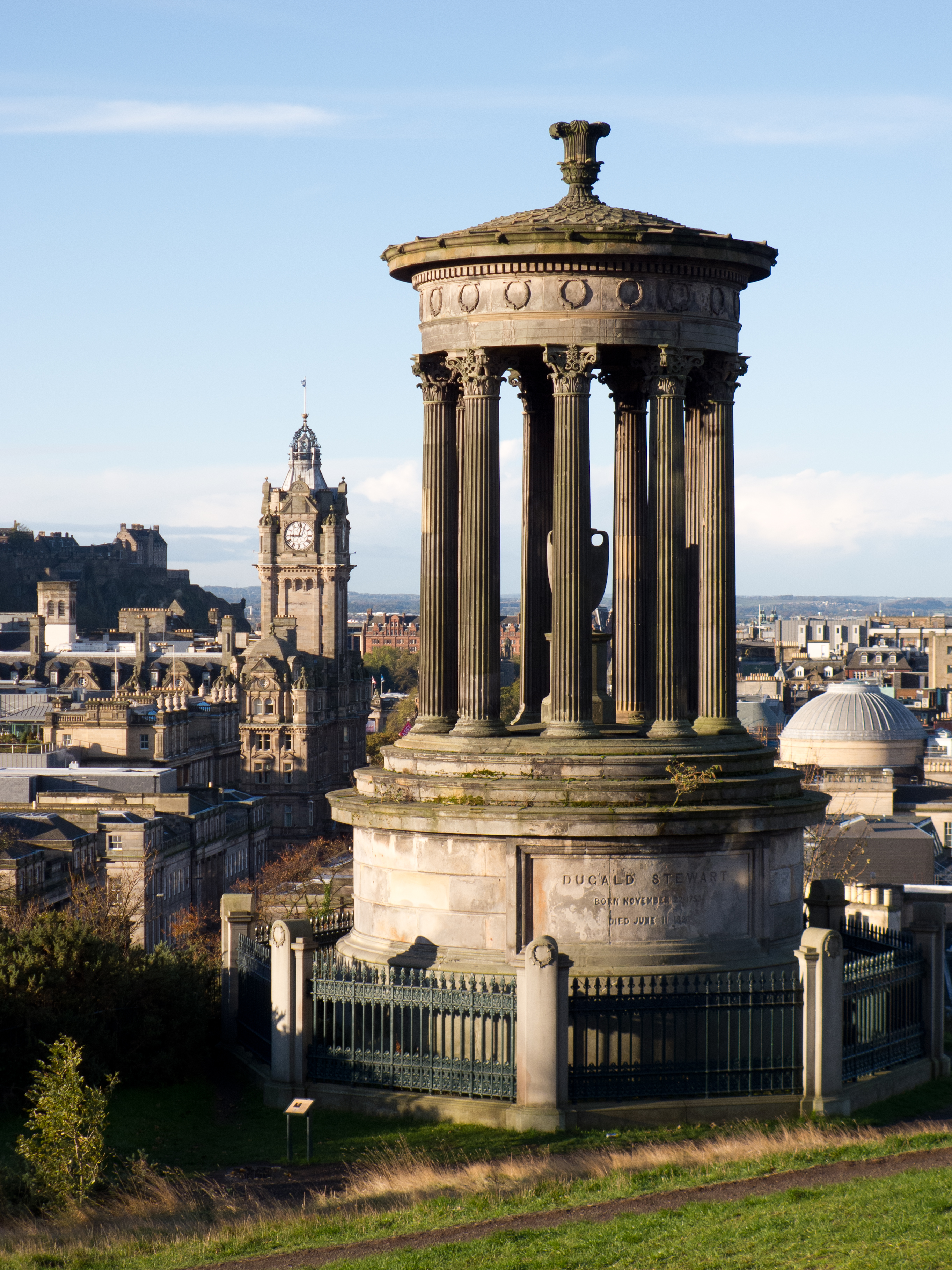 Dugald Stewart Monument, Edinburgh, Scotland, UK. Wikidata has entry Q17570699 with data related to this building.